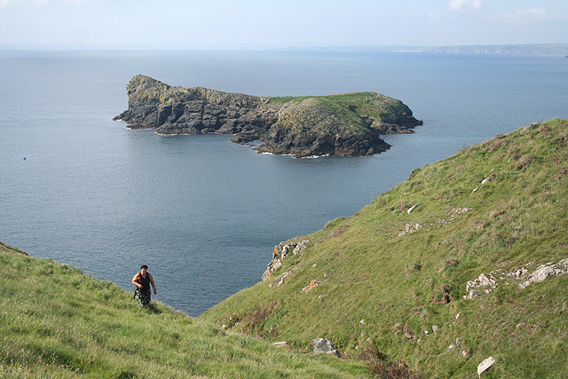 Mullion: Mullion Island Seen from Mullion Cliff. Mounts Bay on the horizon